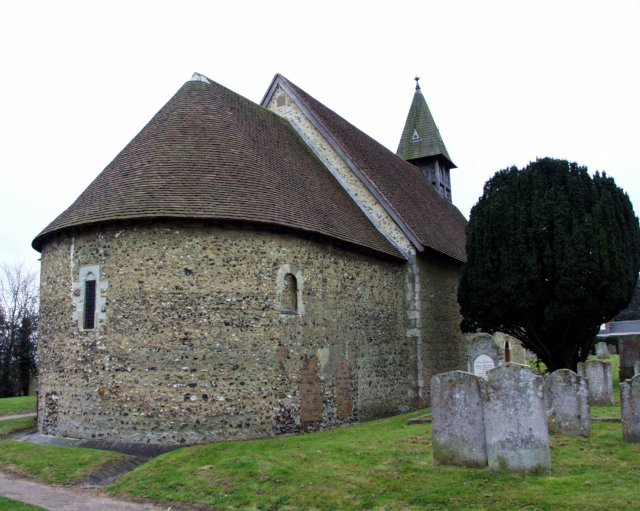 Church of England parish church of St Leonard, Bengeo, Hertfordshire: view from the northeast, showing the apsidal chancel